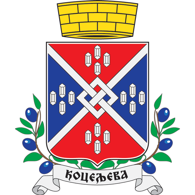 Coat of arms of Koceljeva (middle)